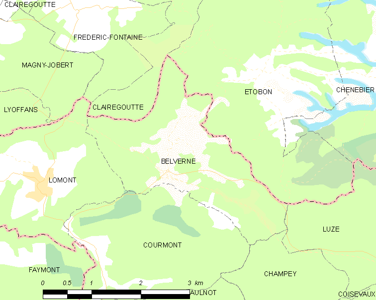 Map of French municipality